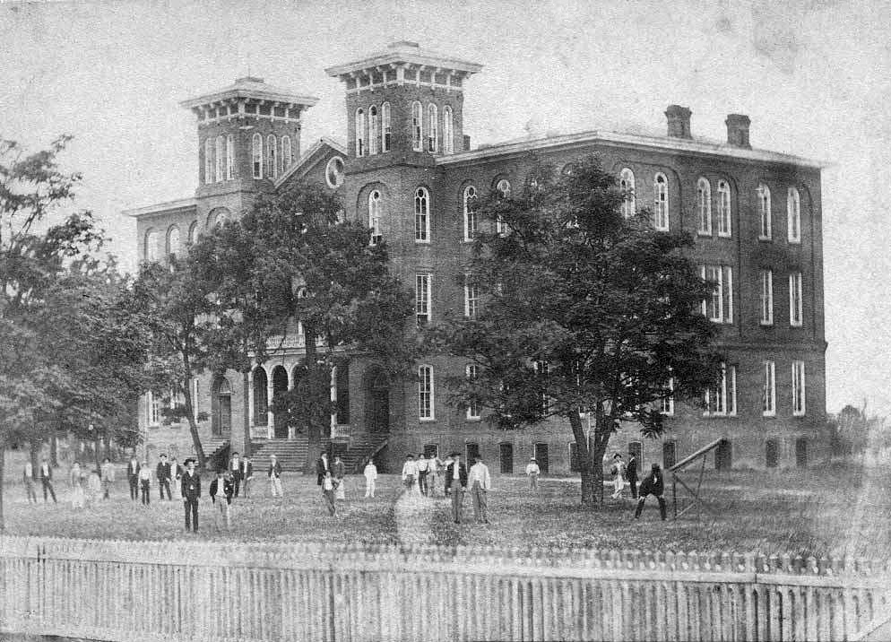 This image of the Old Main Building was taken in 1883. It was located on South College Street, where the present day Samford Hall stands. It was the original building of the East Alabama Male College (now Auburn University). It was originally used for classrooms and the library. It served as a Confederate Hospital from 1864-1866 during the Civil War. The building burned in 1887 and was replaced by the current Samford Hall.[1]